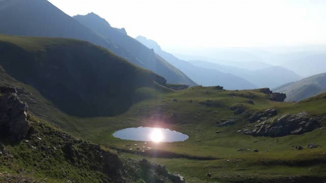 Glacial Sunrise Lake on Mount Korab, Macedonia